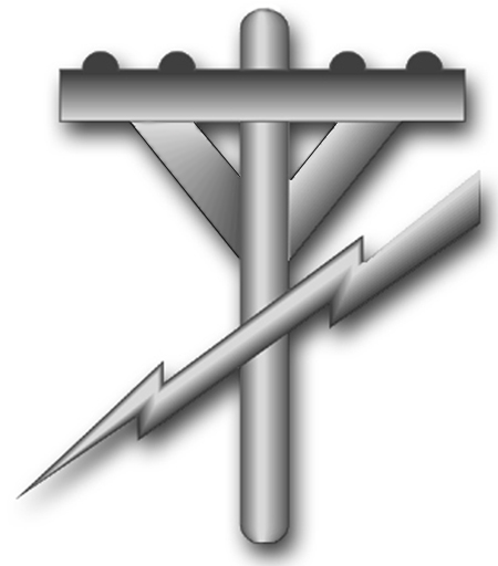 US Navy Construction Electrician (CE). A spark superimposed, at an angle, on a telephone pole; lower end of spark to the front.